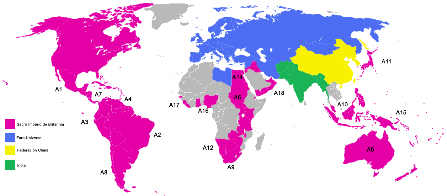 Code Geass Map